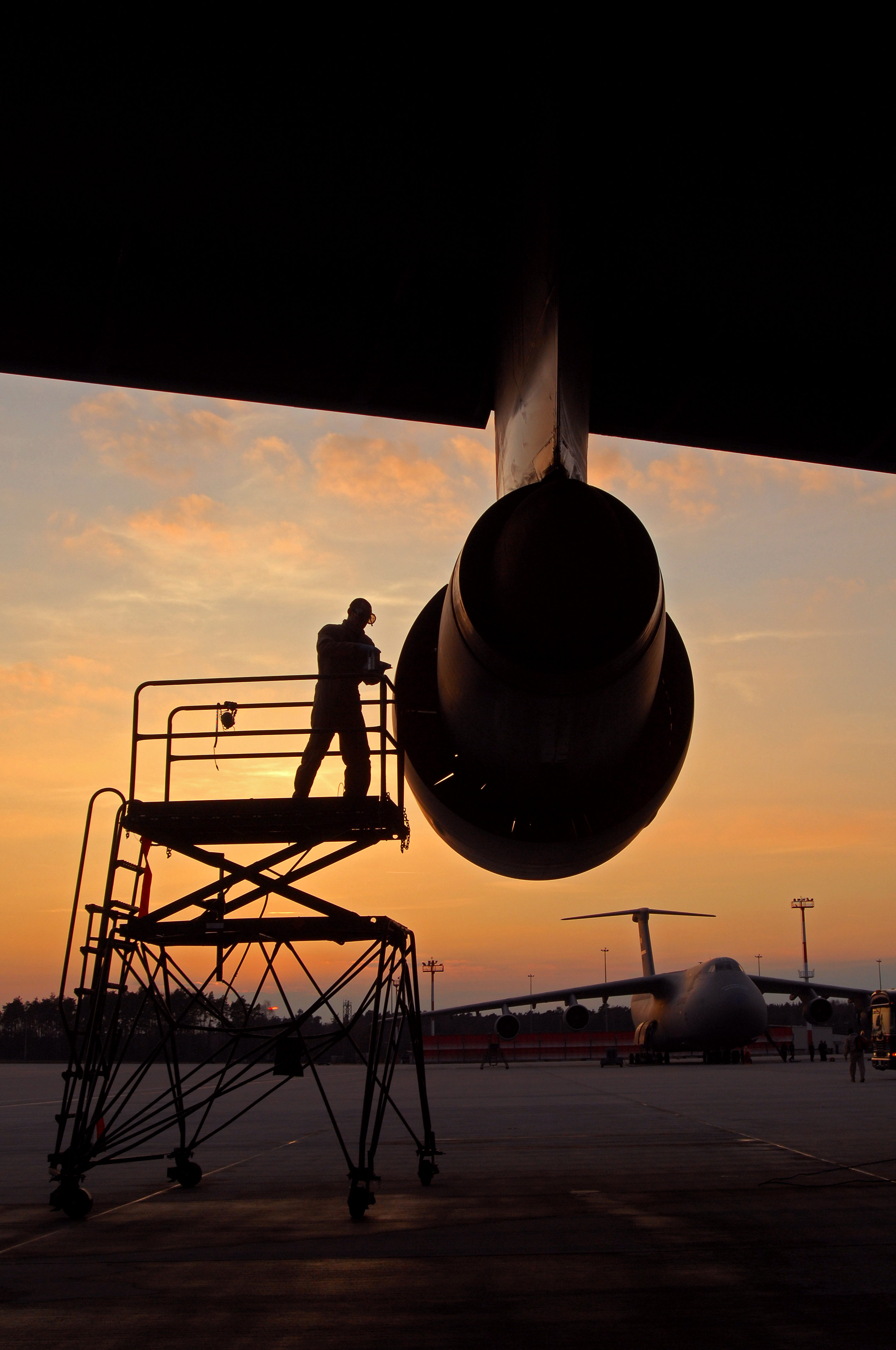 Engine check of an General Electric TF 39 Engine of an Lockheed C-5 Galaxy. Photo was taken at Ramstein Air Base in Germany.